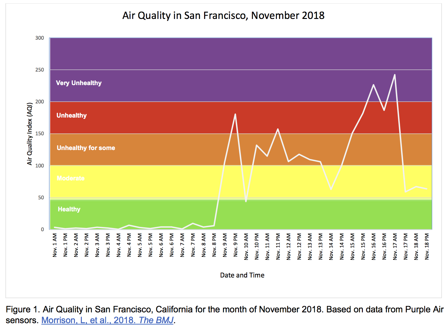 The Camp Fire had a negative impact on air quality. (Morrison, L., Chen, C., Linou, N., Linos, L. 2018. California wildfires: I am simultaneously worried about my own health, the health of my patients, and the safety of my children. The BMJ)